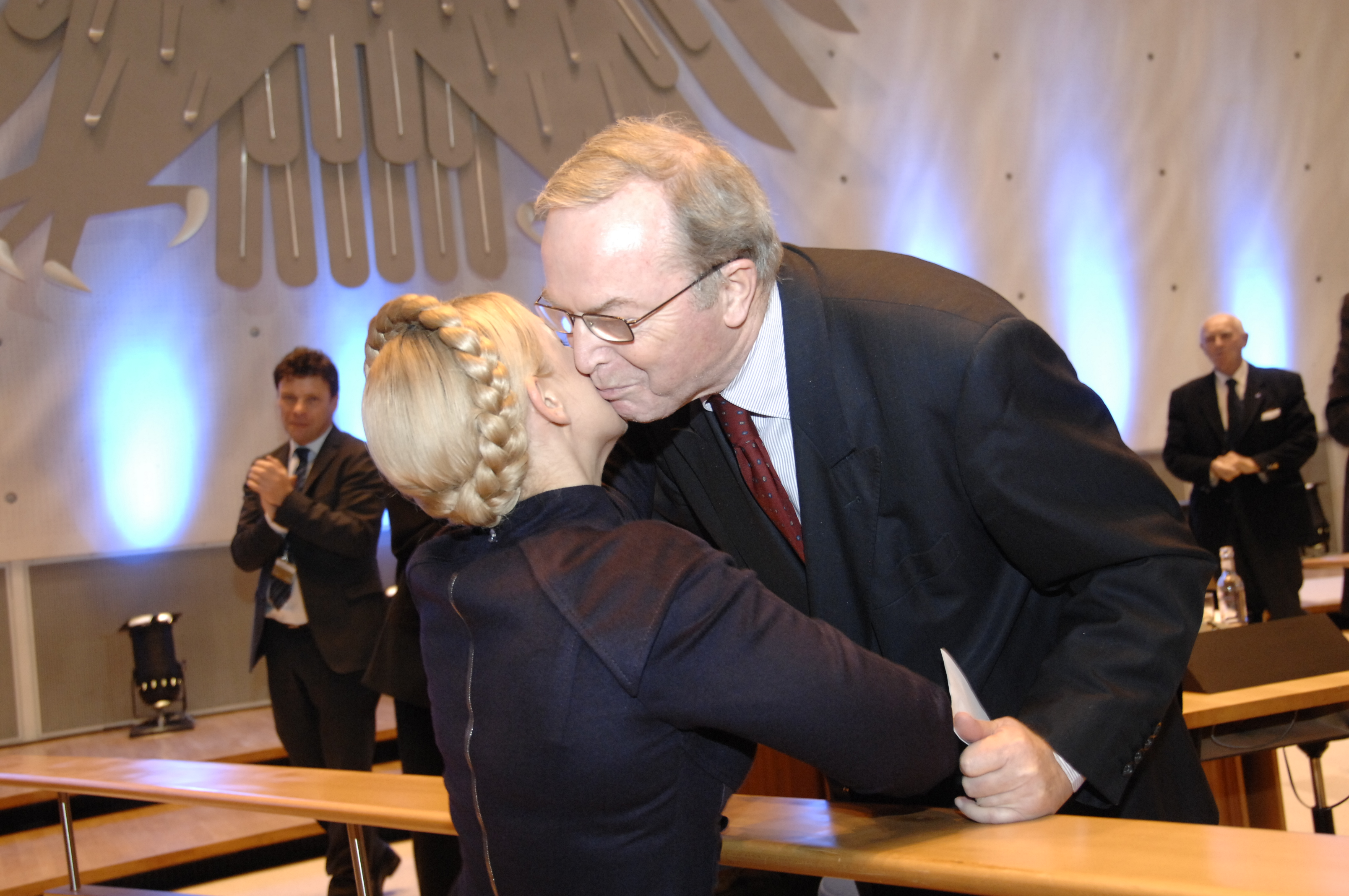 EPP Congress Bonn